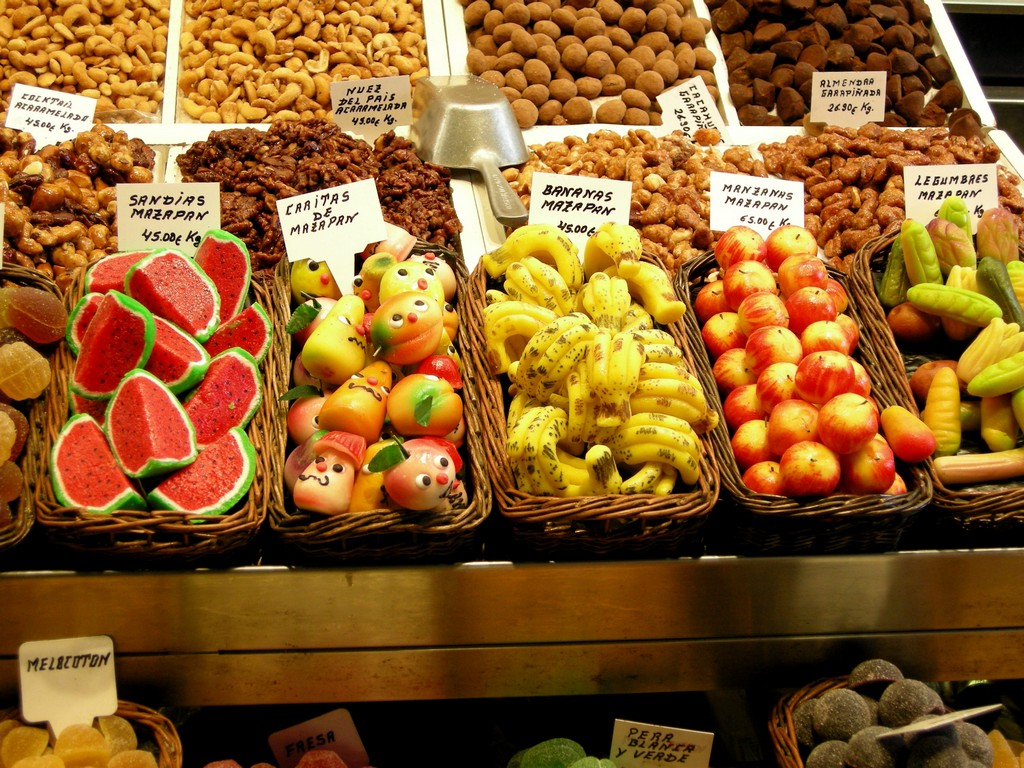 Various fruit-shaped marzipan in baskets.